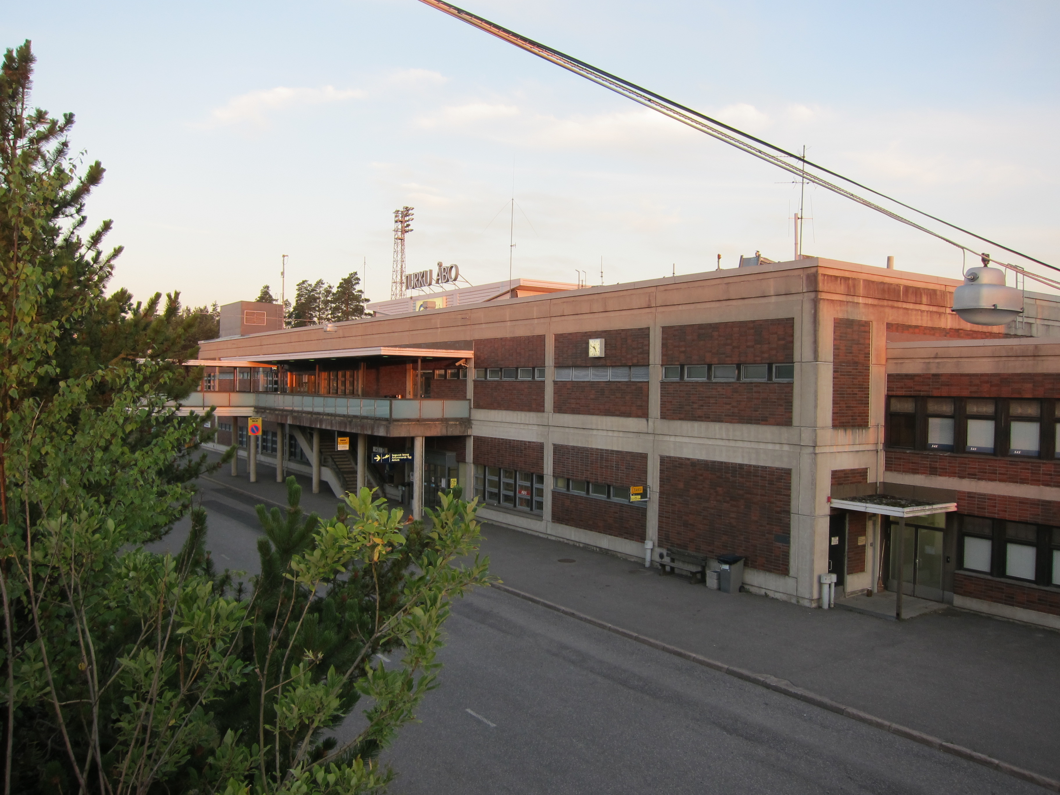 Turku Airport, Finland.